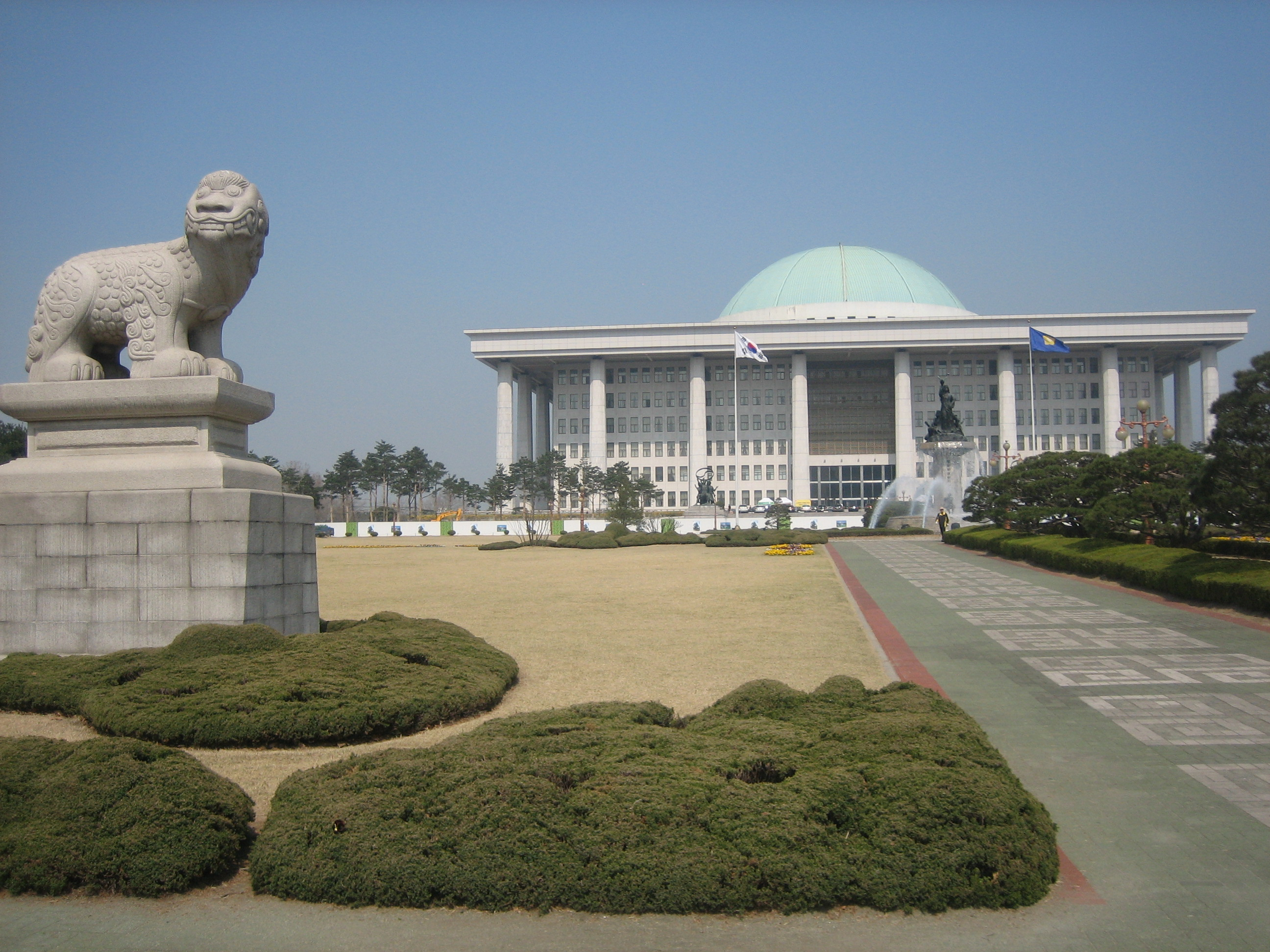 A view of National Assembly Building of South Korea in Yeouido, Seoul, South Korea